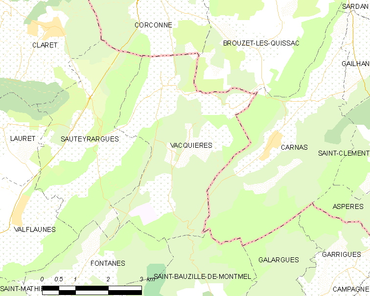 Map commune FR insee code 34318.png - Vacquières